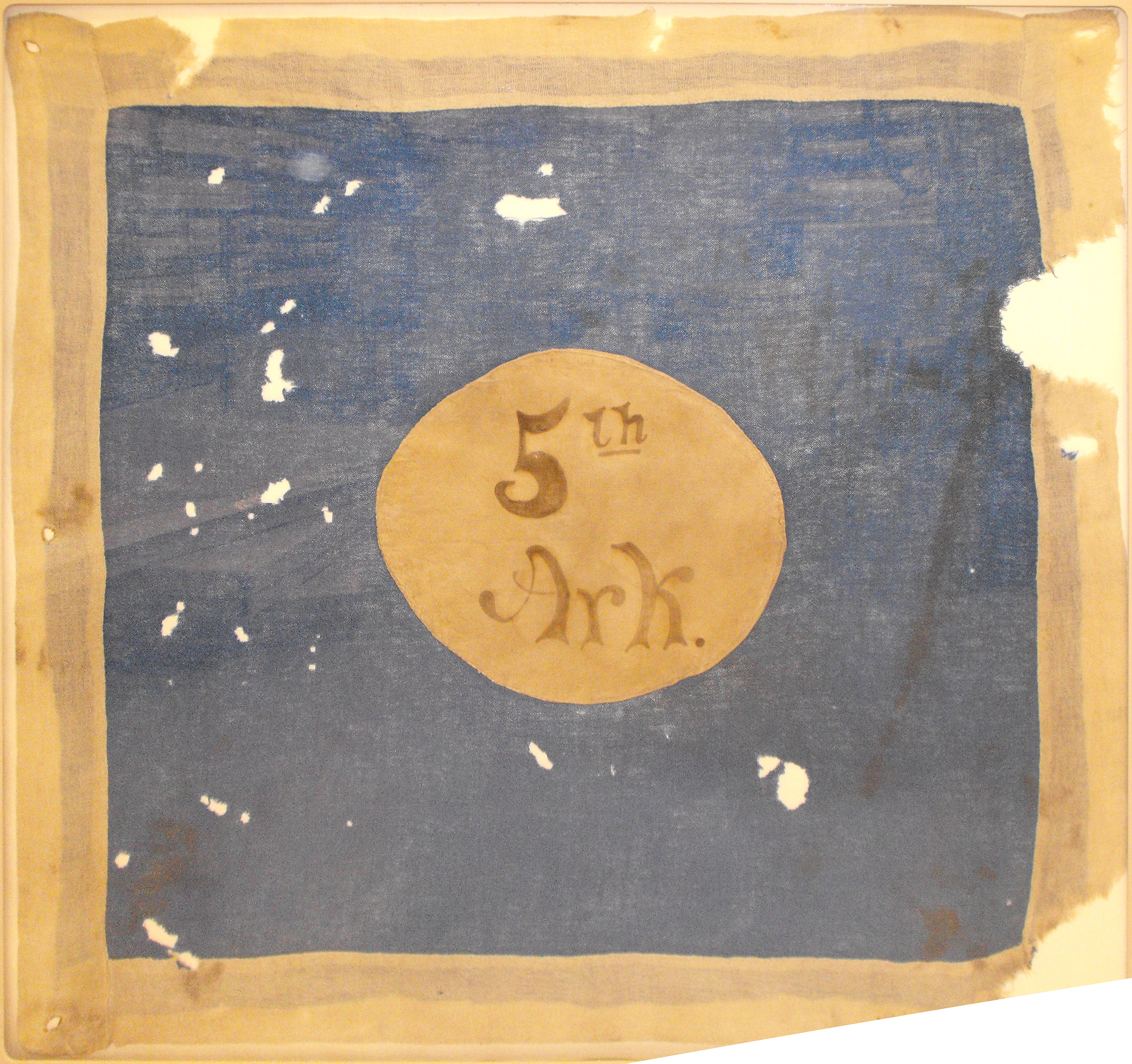 Hardee Pattern Regemental Battle Flag of the 5th Arkansas Infantry Regiment. Currently in the collections of the Texas Civil War Museum, Fort Worth Texas.